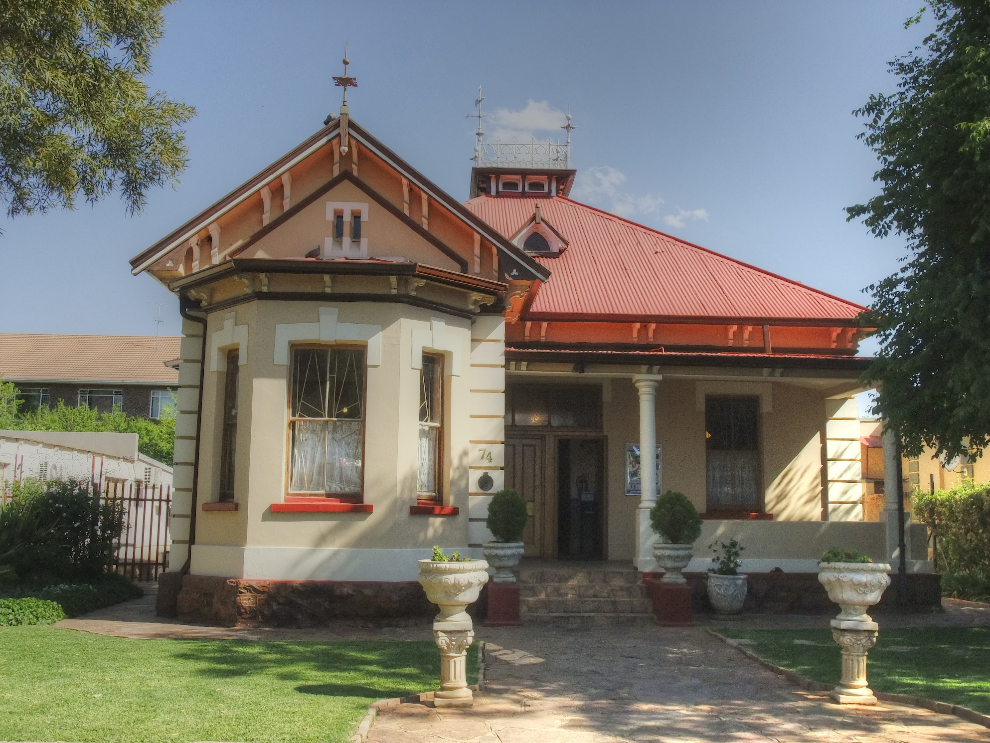 74 Lombard Street, Potchefstroom (new street name: James Moroka Ave) This media shows a South African Protected Site with SAHRA file reference 9/2/256/0002.